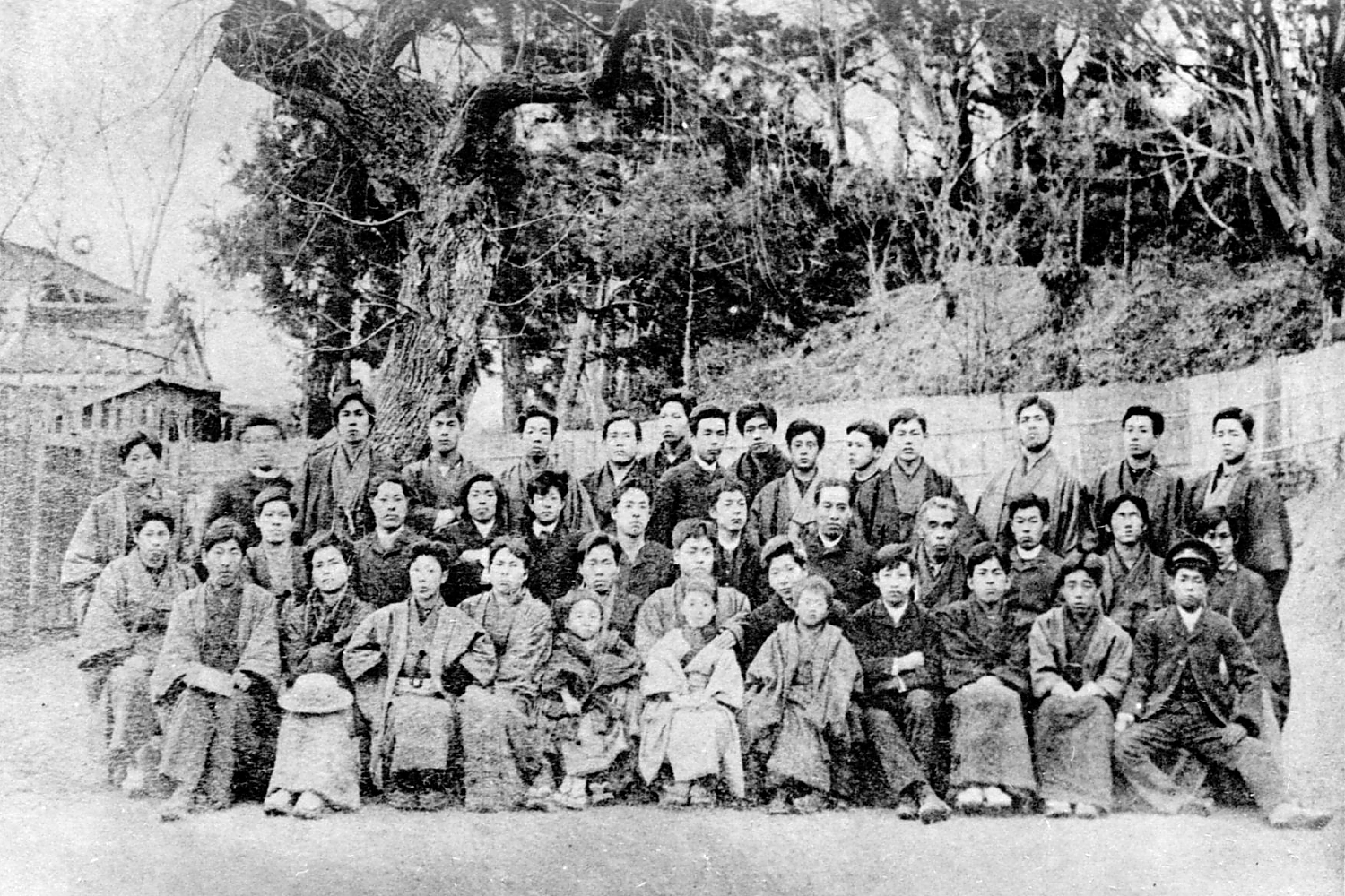 Yukichi Fukuzawa and Keio Gijuku's students (and Momosuke Fukuzawa).